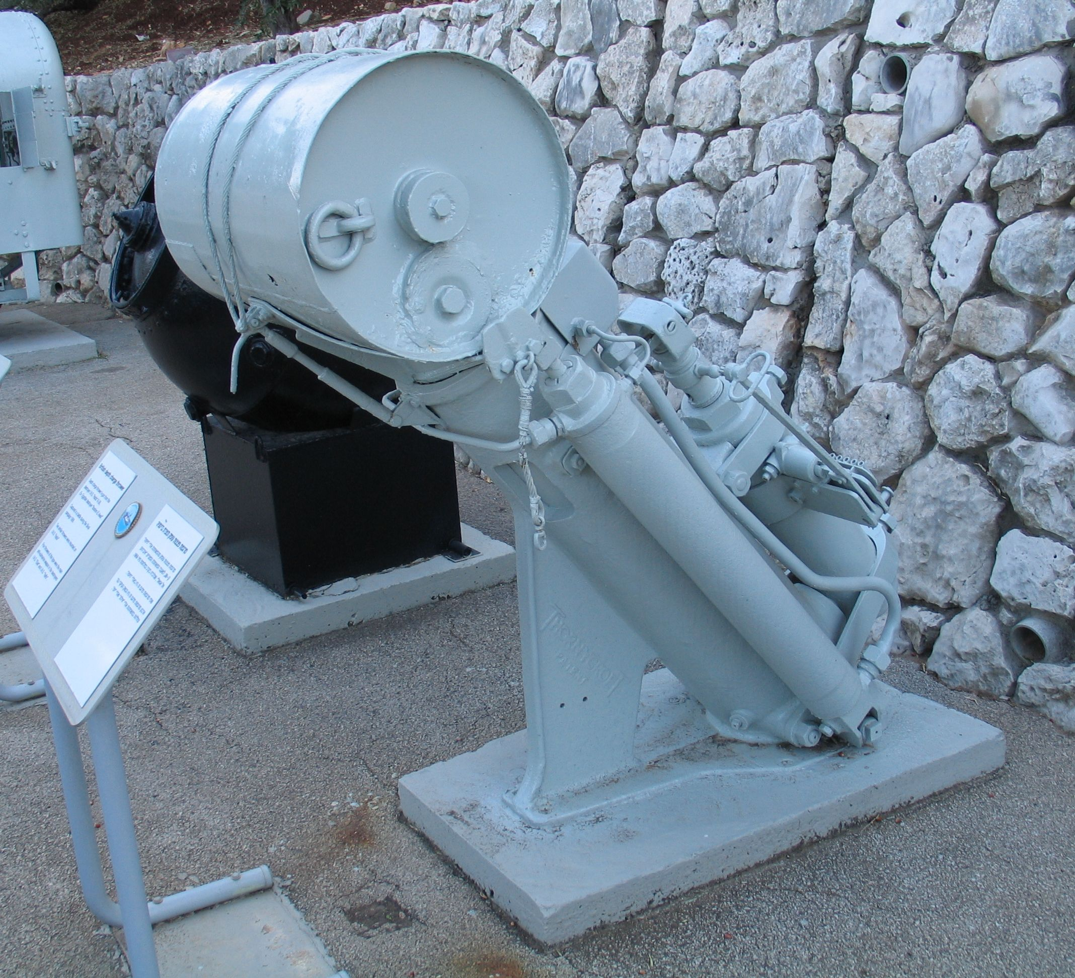 Depth charge thrower from INS Haifa (K-38) in the Clandestine Immigration and Naval Museum, Haifa, Israel. Comment : This is a British Thornycroft depth charge thrower with depth charge loaded. INS Haifa was originally the British Hunt class escort destroyer HMS Mendip, completed 1940.